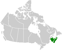 Map of the Maritime provinces. See Image:Canada provinces blank vide.png for additional information.